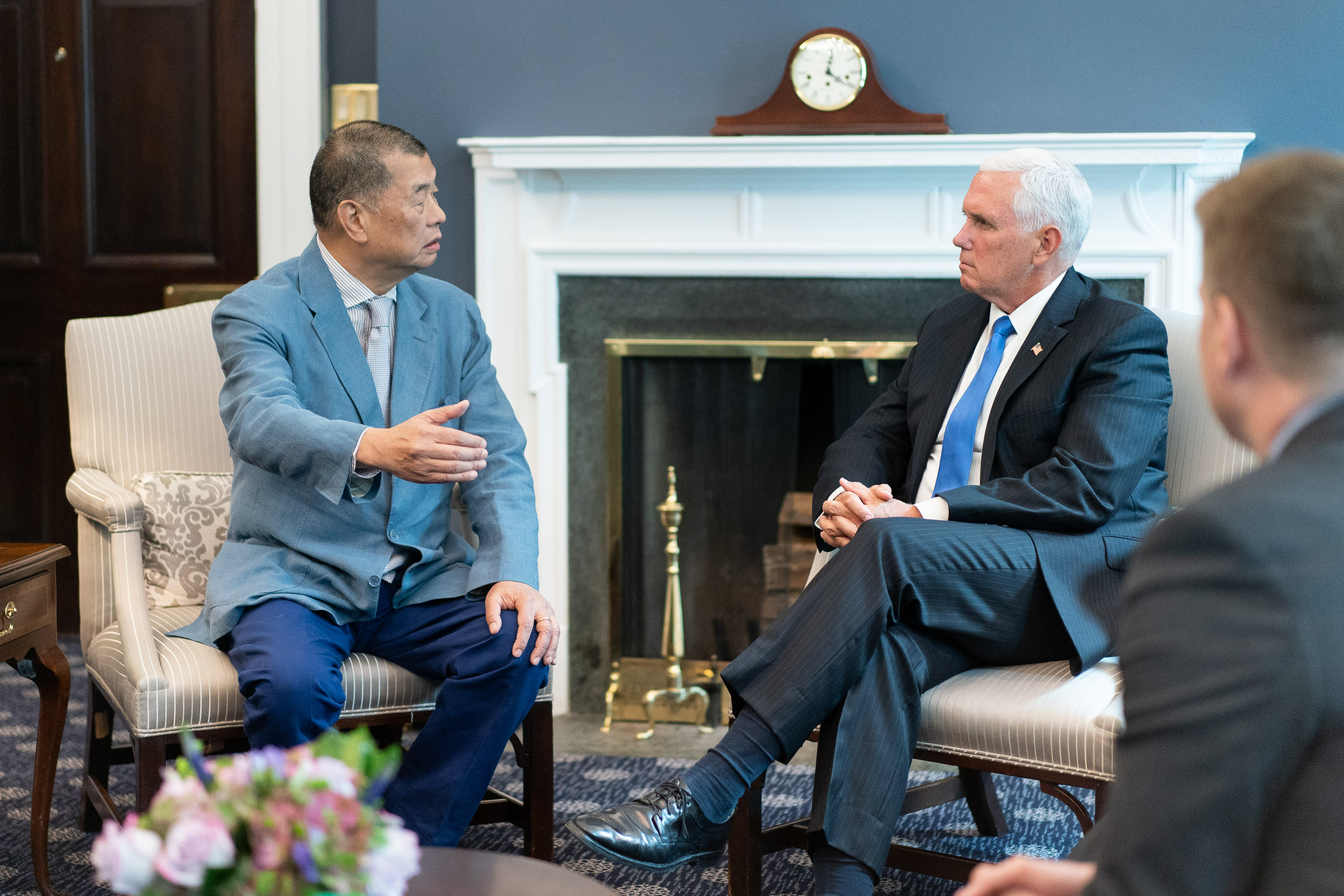 The arrest of @JimmyLaiApple in Hong Kong is deeply offensive & an affront to freedom loving people around the world. When I met w/ Jimmy Lai @WhiteHouse, I was inspired by his stand for democracy & the rights & autonomy that were promised to the people of Hong Kong by Beijing.